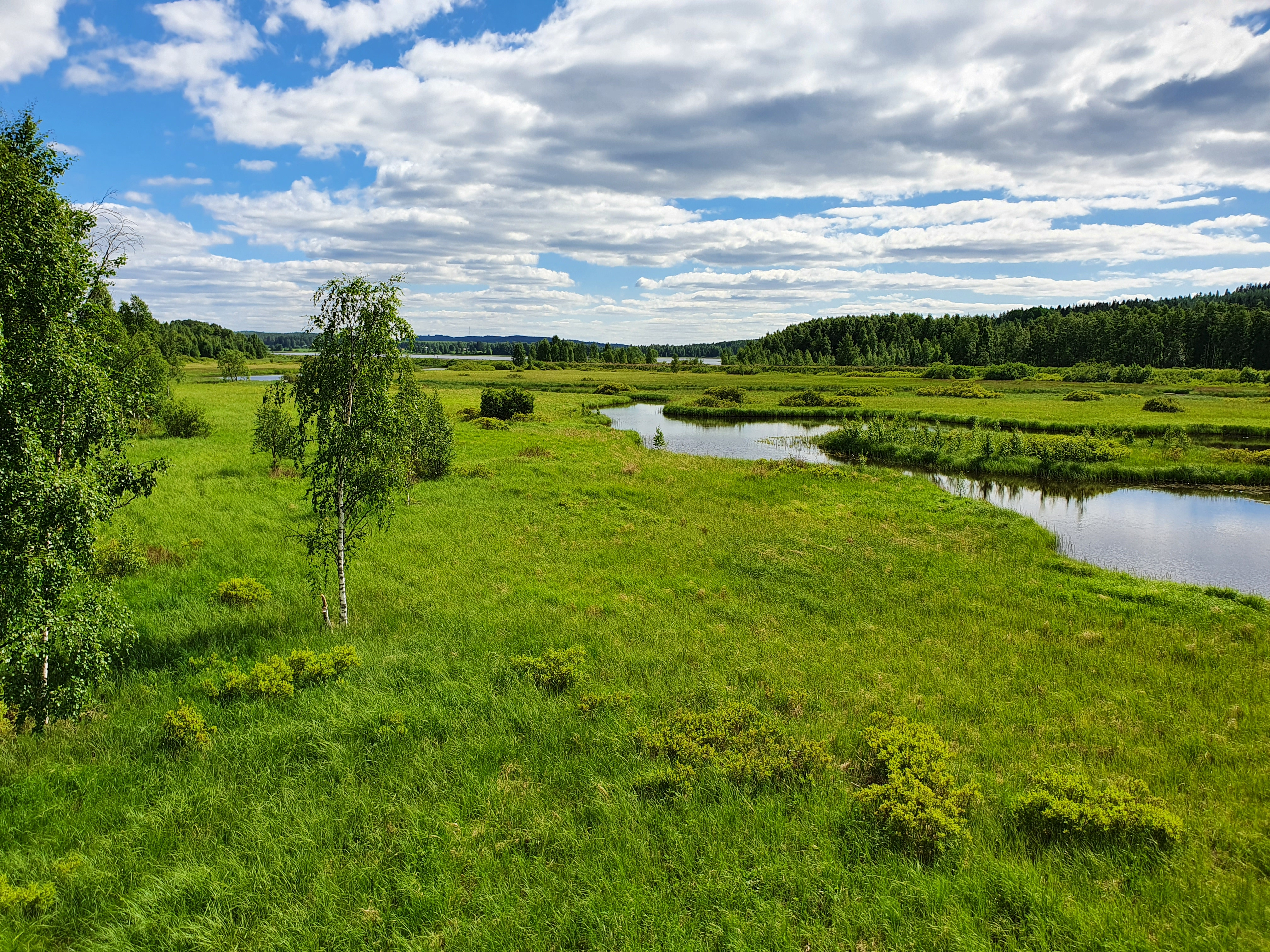 Pappilanluhta wetland in Lieksa, Finland, seen towards South-East from the bird watching tower.